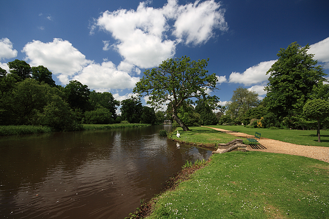 Wilton House Riverside Walk. Looking west alongside the Nadder in the grounds of Wilton House, towards the Palladian Bridge in the far distance, just out of square.